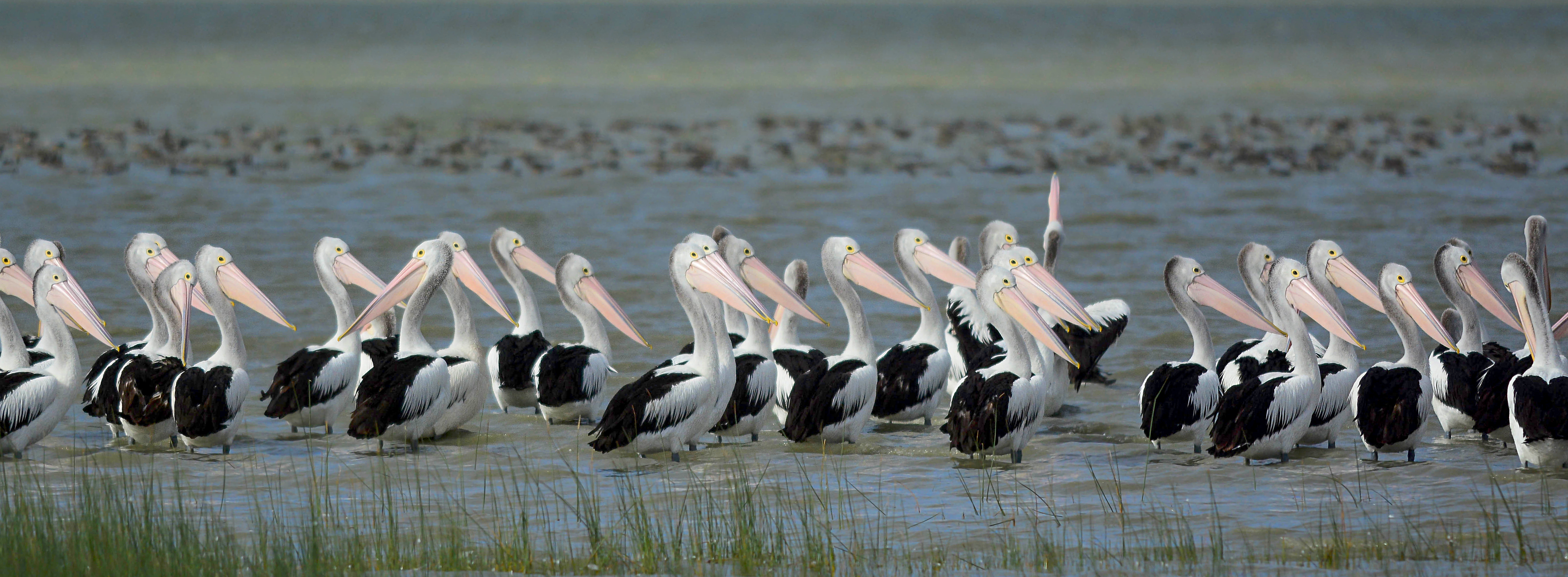 Australian Pelican